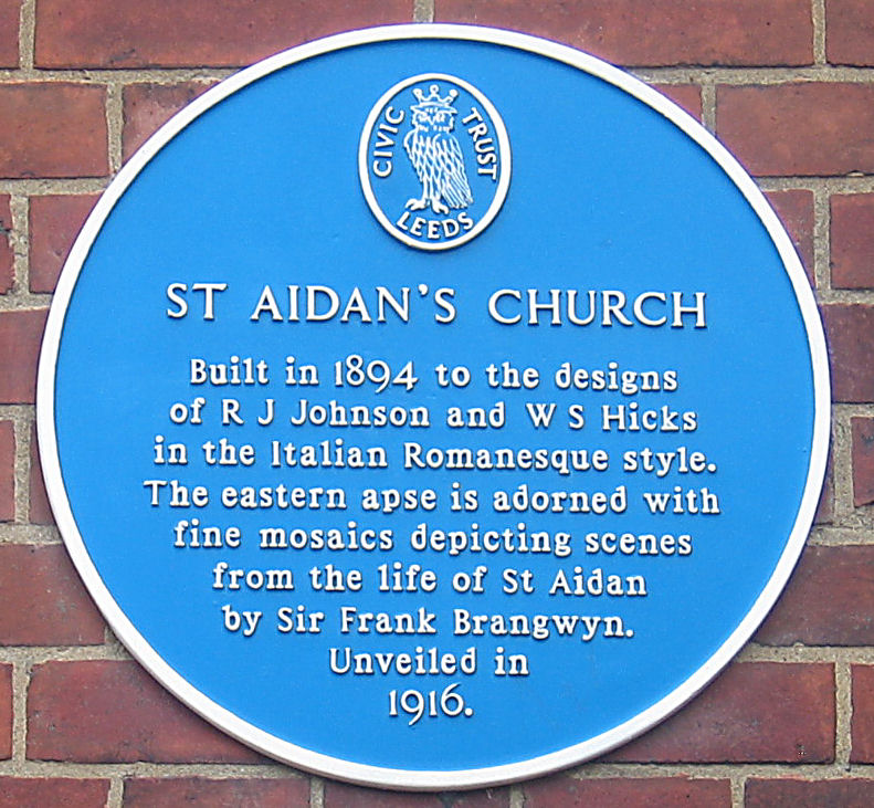 Blue Plaque on St Aidan's Church, Harehills, Leeds LS8 5QD, West Yorkshire